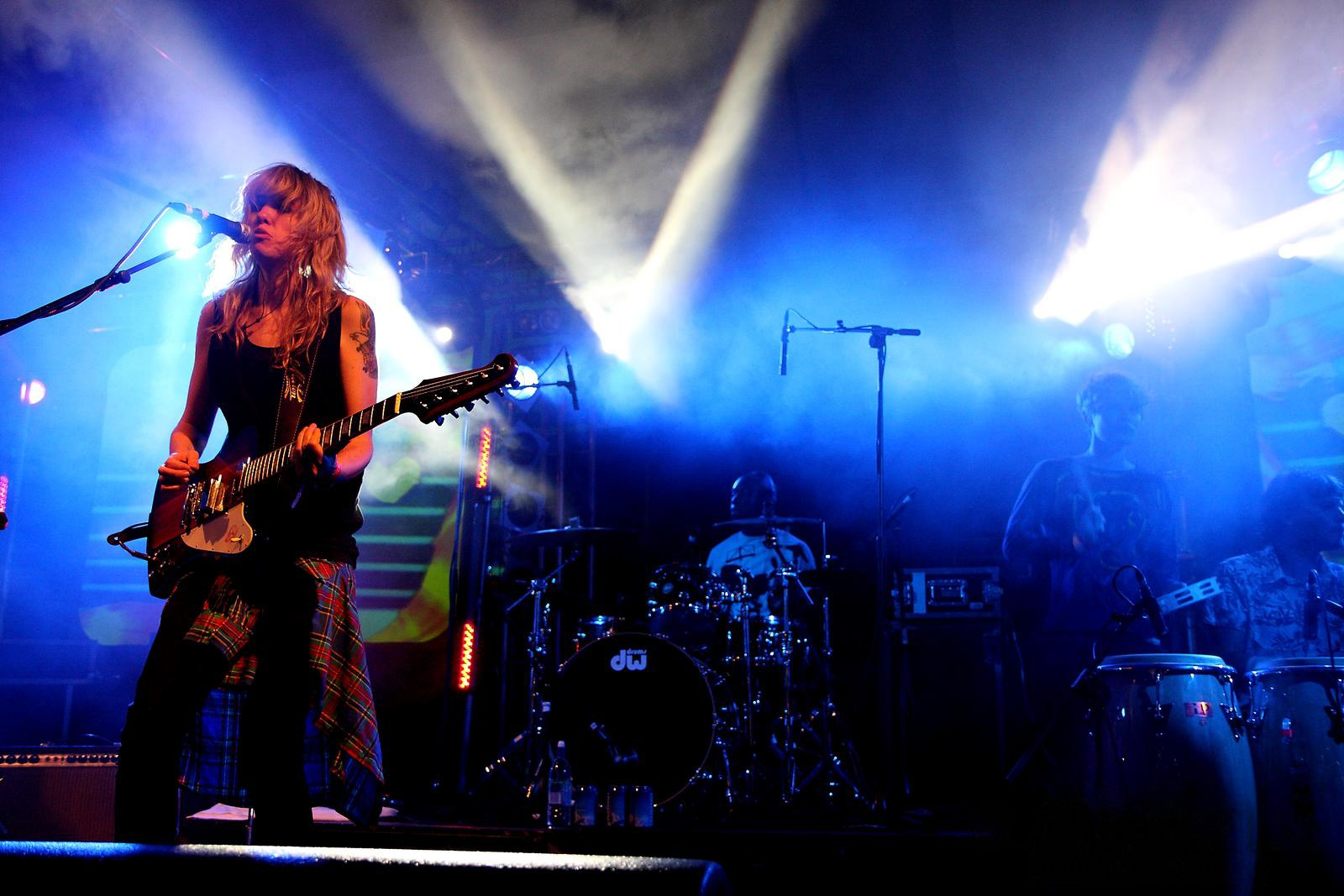 Ladyhawke playing live at the Rhythm & Vines 2008/2009.